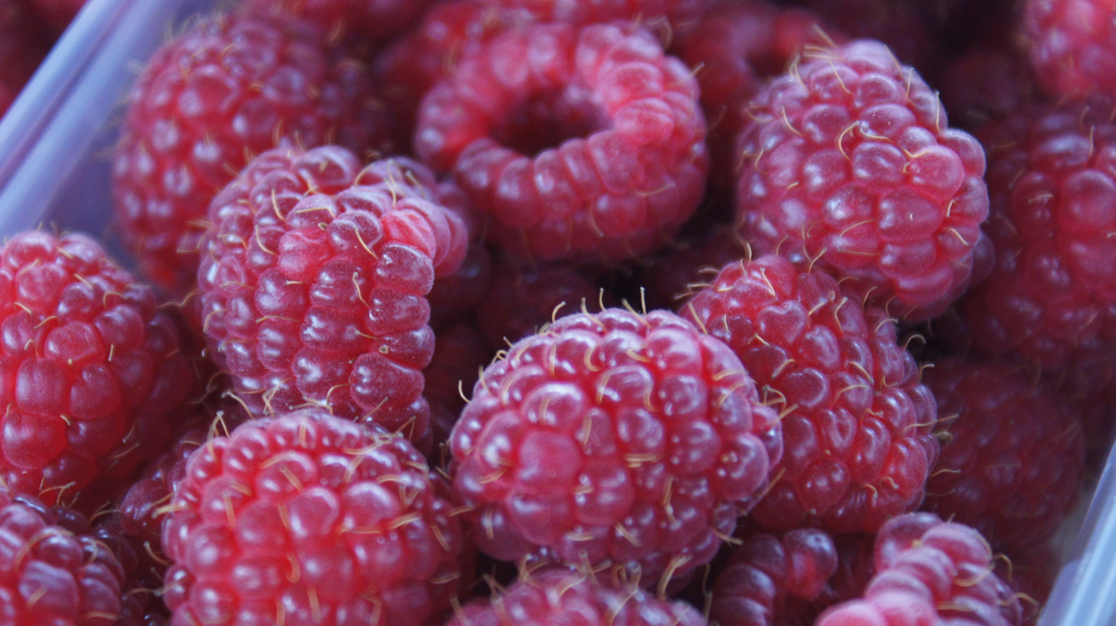 Close-up image of raspberries in a plastic punnet at Ljubljana Central Market